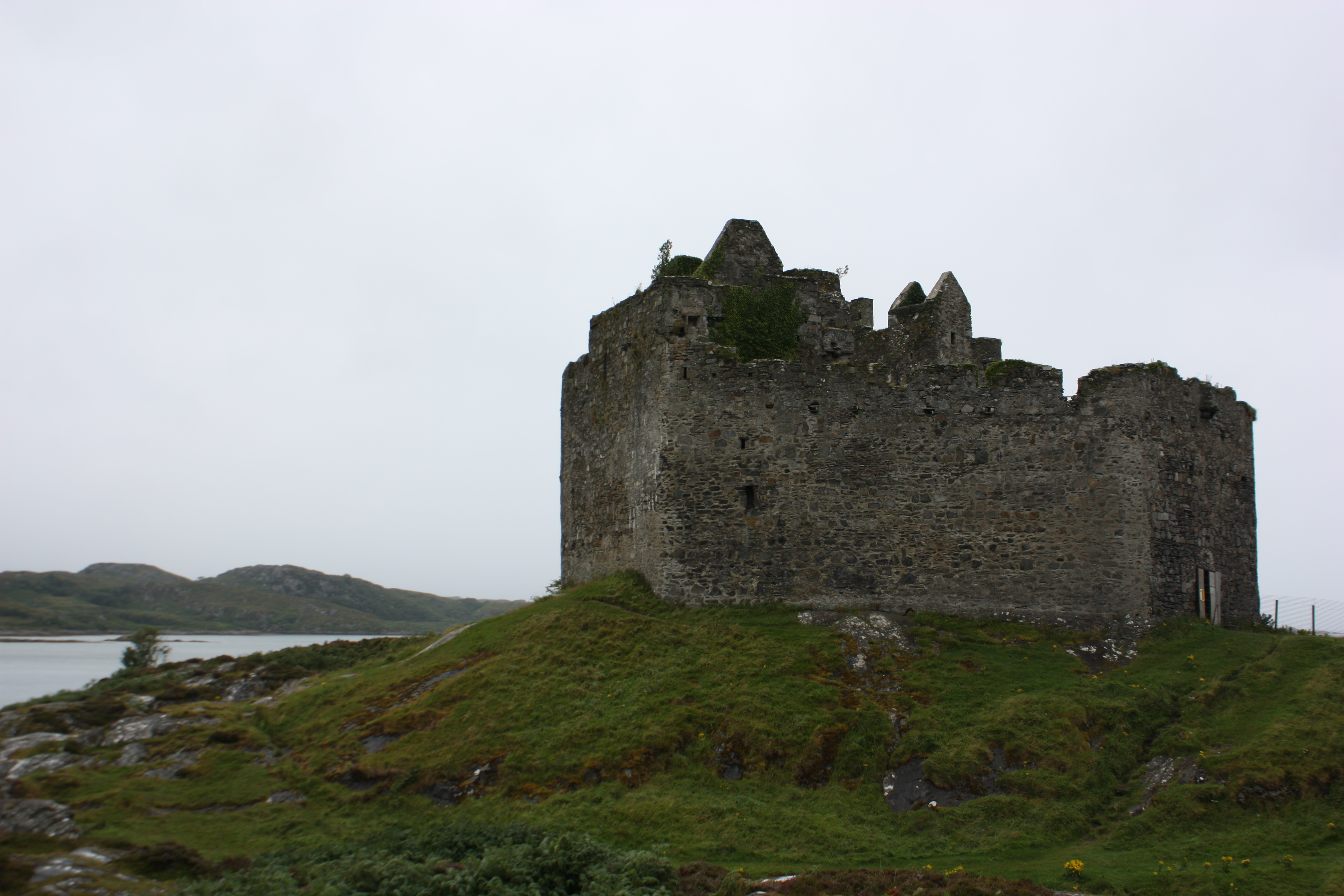 Castle Tioram in the Scottish Highland, UK.